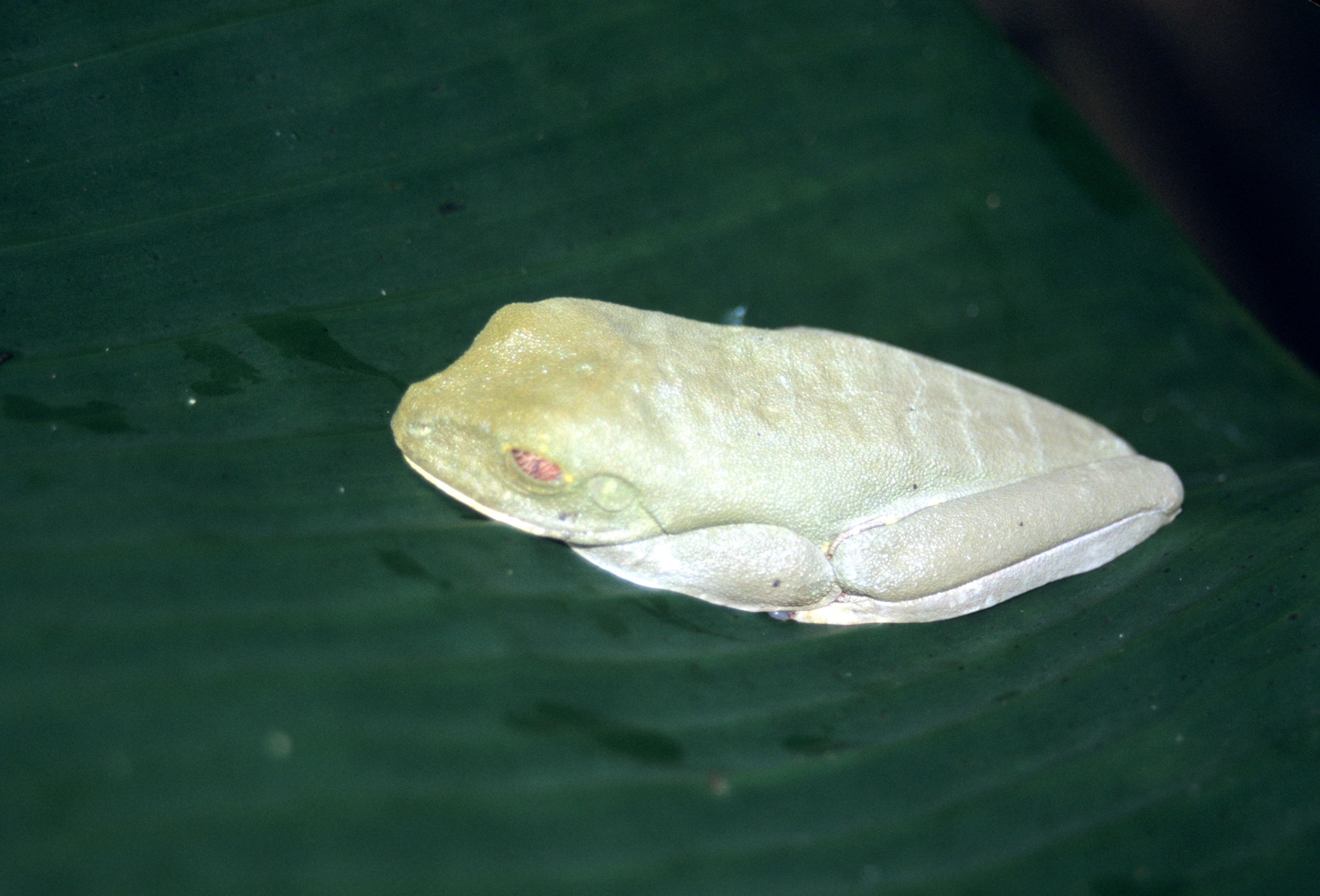 Red-eyed Tree Frog (Agalychnis callidryas), in camouflage mode